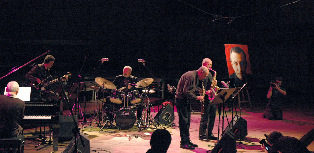 Jazz Carriers performing in the Polskie Radio studio in Warszawa, February 2009 during a concert devoted to Slawomir Kulpowicz.